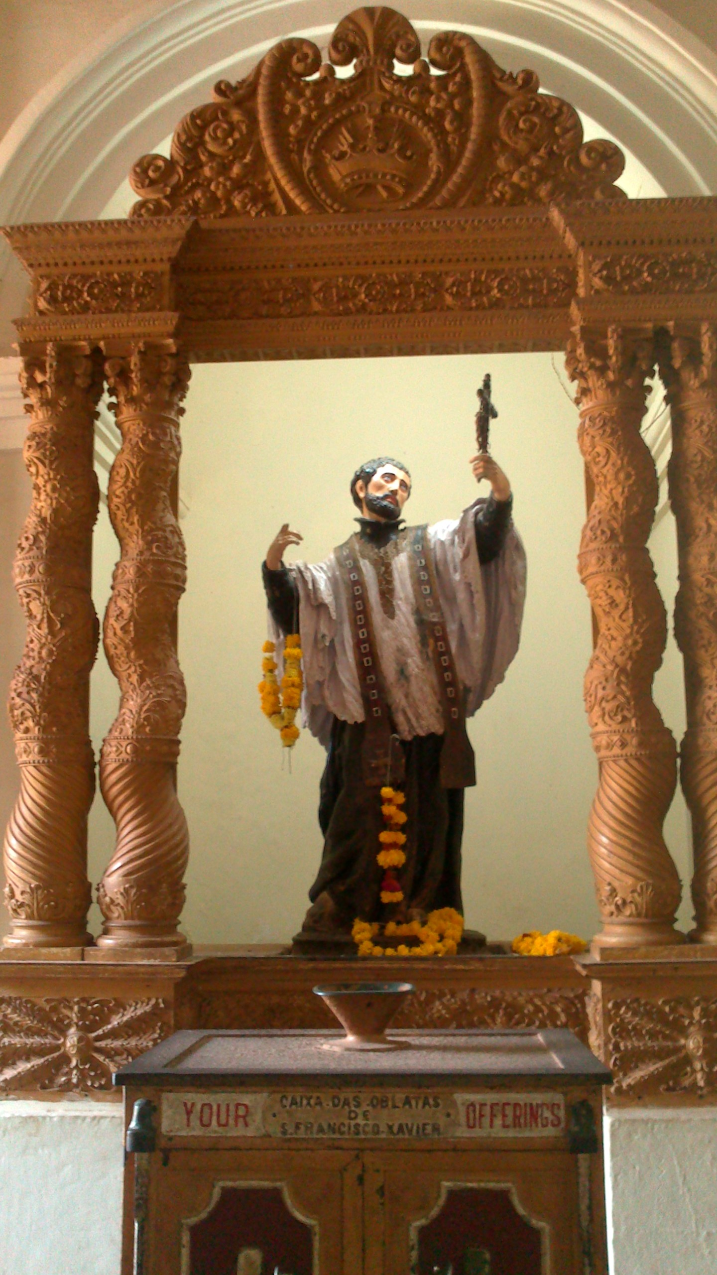 Located in the Basilica de Bom Jesus, Old Goa, India.